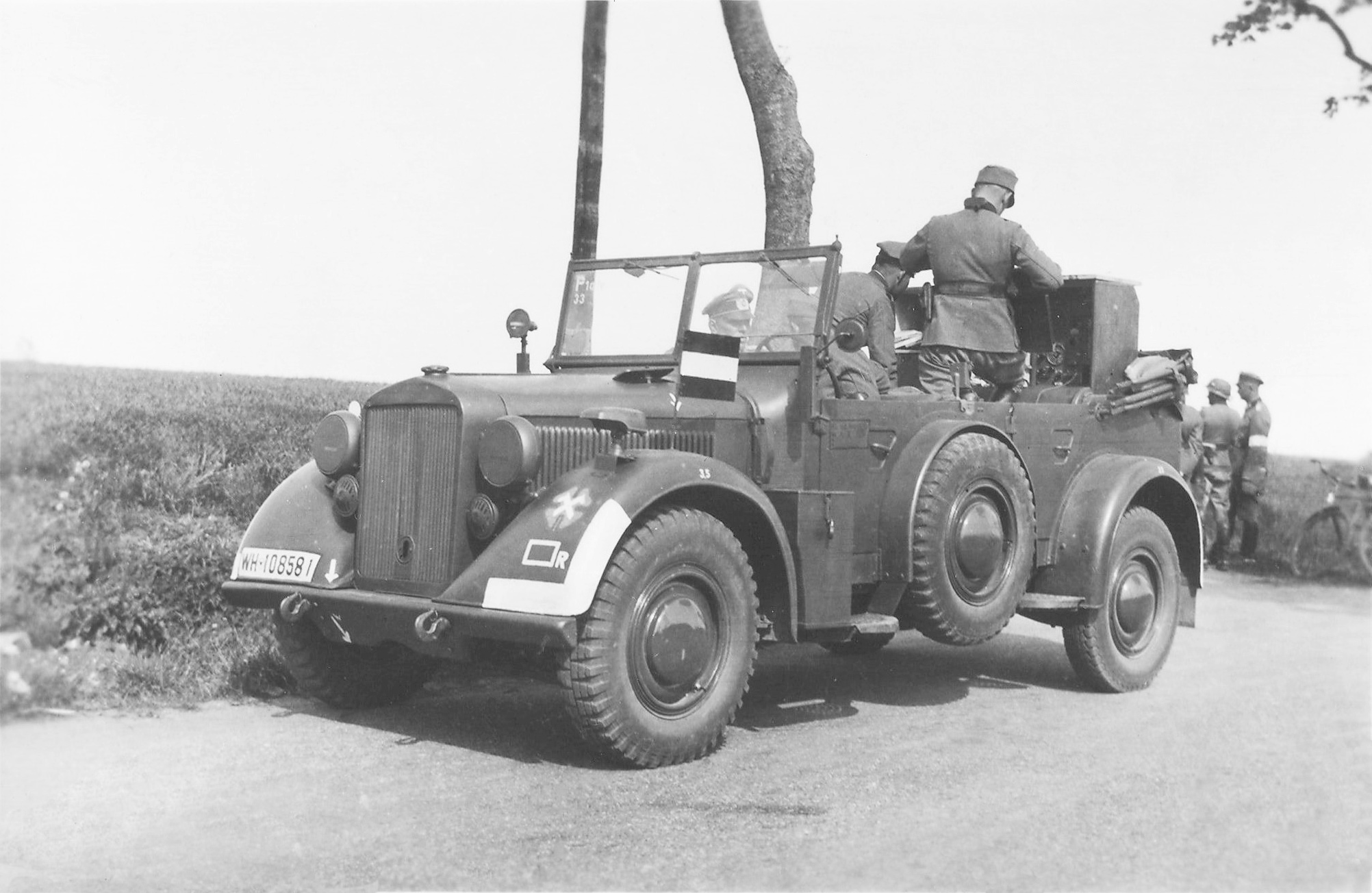 Wehrmacht passenger car Horch 901 (regiment commando), sign: 71. Infanteriedivision